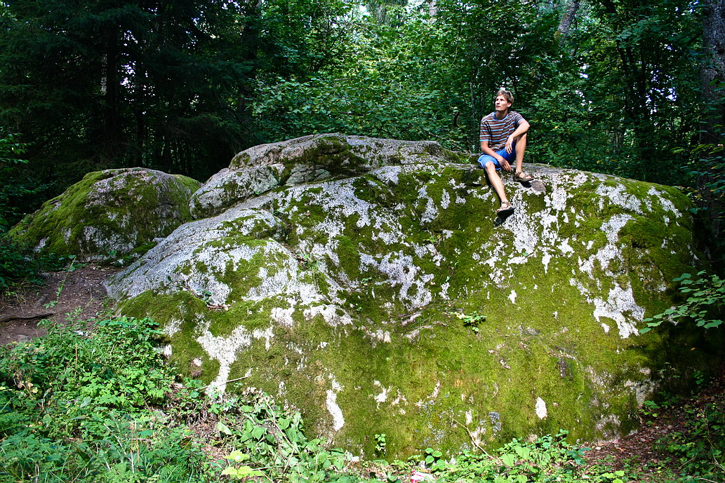 Boulder Mokas in Ukmergė district of Lithuania